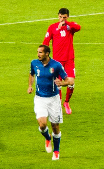 Azerbaijan-Italy, 10 September 2015. Italian defender Giorgio Chiellini (n. 3).